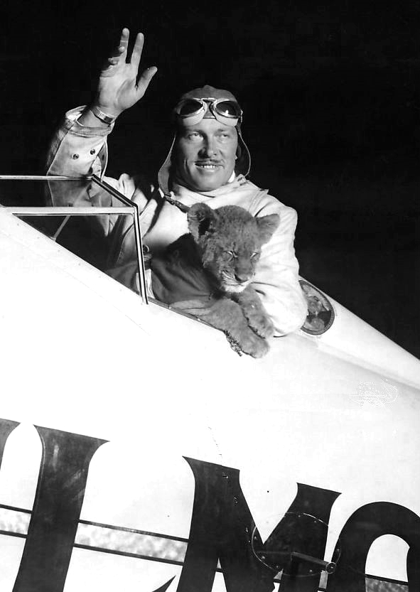 Photo of Colonel Roscoe Turner and Gilmore, his lion. Turner kept Gilmore at his California home; he accompanied Turner on his flights until circa 1935. At that time, Gilmore became too large and heavy for the aircraft. He's seen here as a cub in 1930.